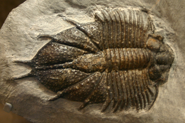 Cropped image of taxon in file name